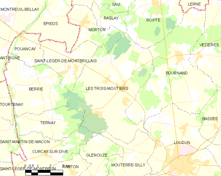 Map of French municipality Les Trois-Moutiers